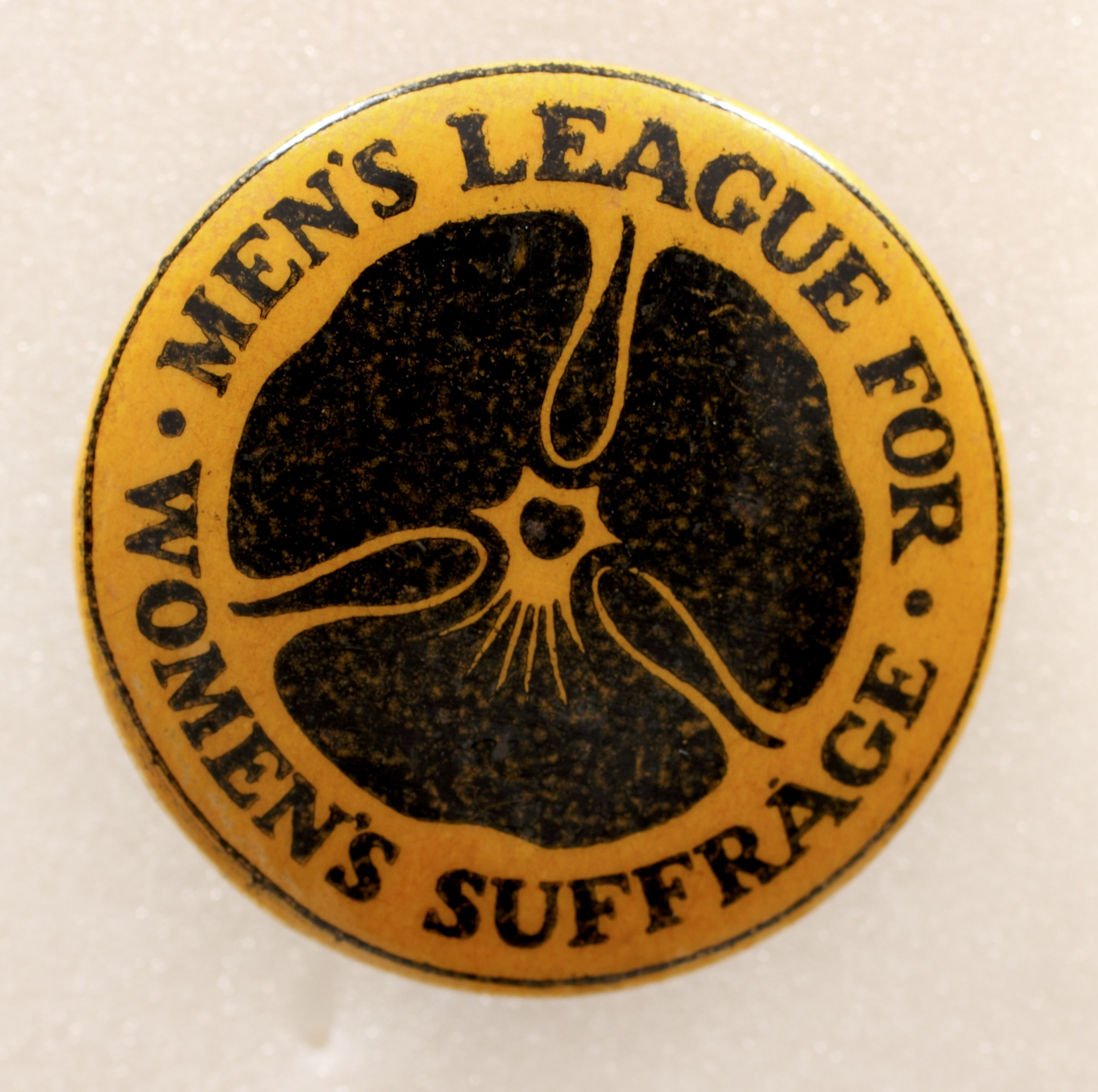 TWL.2004.608 Badge, paper, metal, round, produced by the Men's League for Women's Suffrage, yellow ground, printed with black inscription: 'Men's League for Women's Suffrage', paper covered with plastic , over metal base.